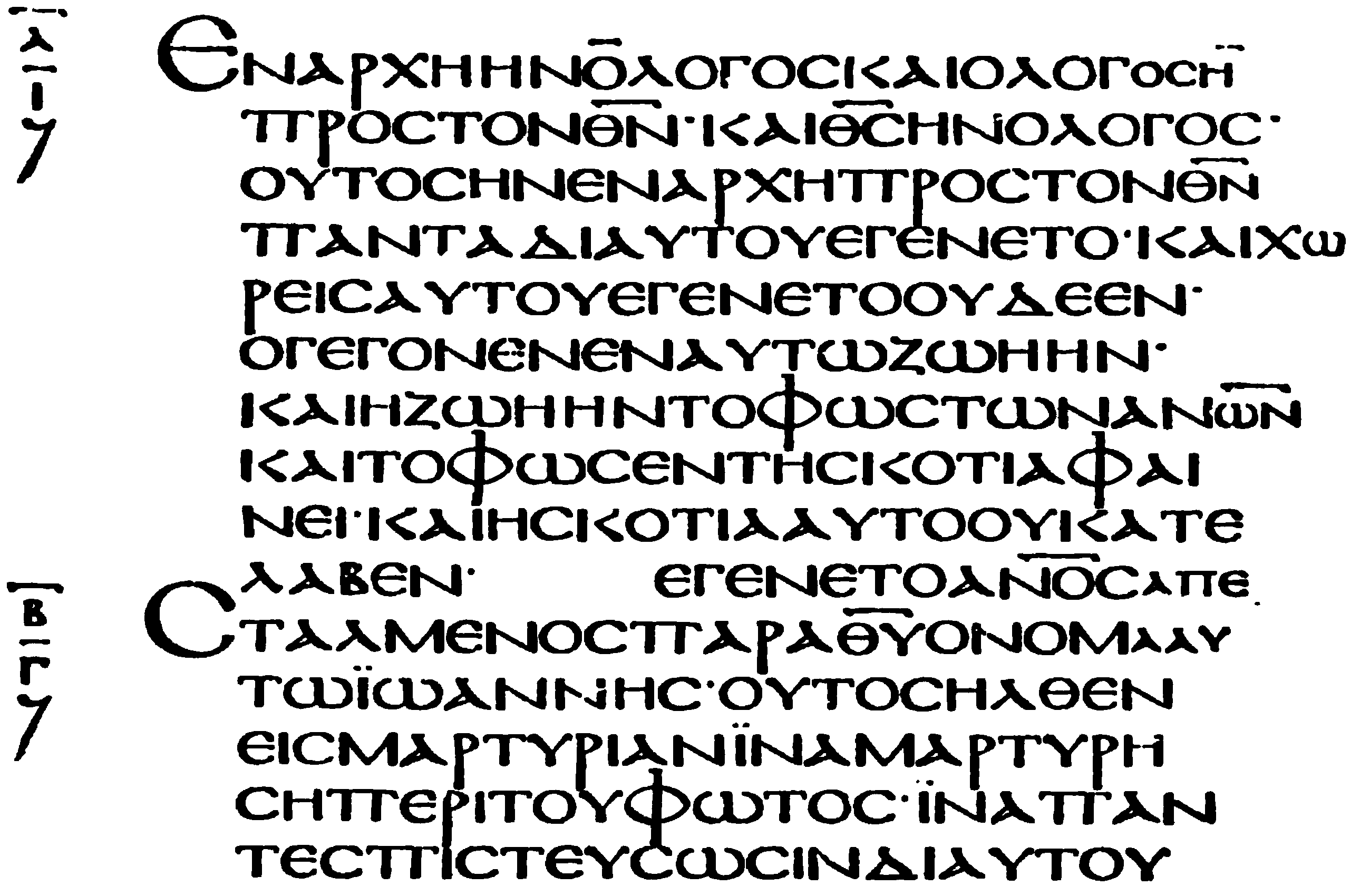 Begining Gospel of John in Codex Alexandrinus